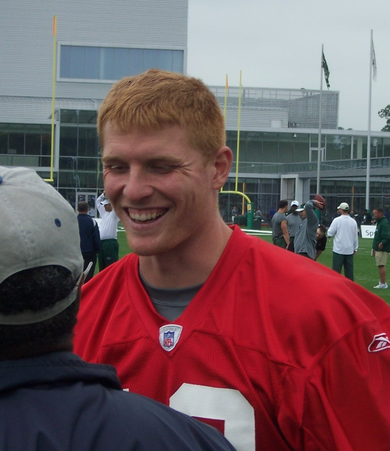 Chris Pizzotti at a New York Jets mini-camp in Florham Park, NJ